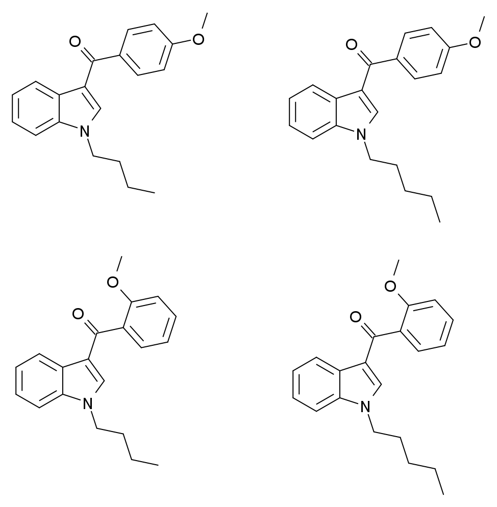 Structure of RCS-4 and some related analogues found in NZ synthetic cannabis blends